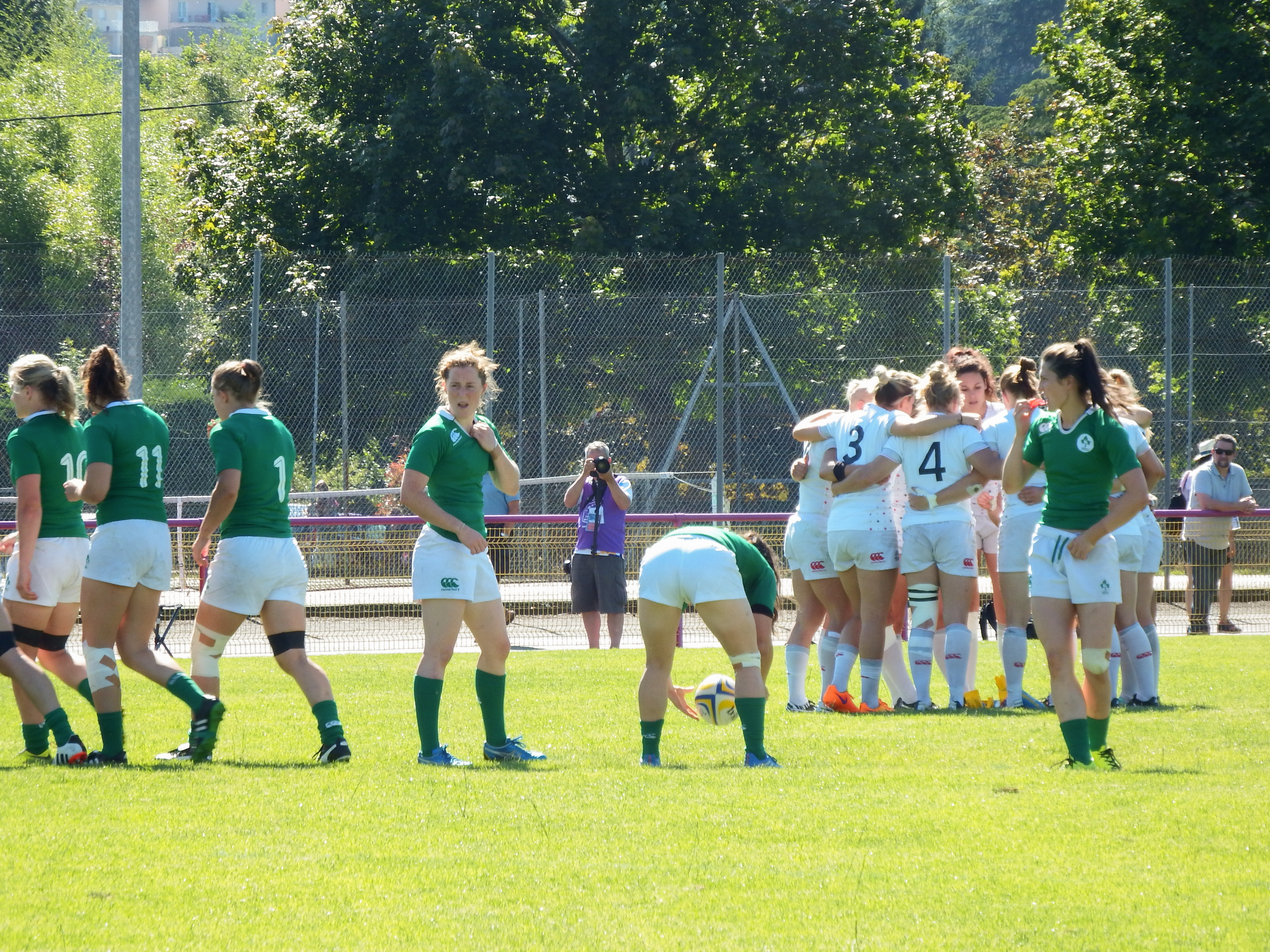 Malemort Sevens 2015 — 20 June 2015, stade Raymond-Faucher. Match between: England — Ireland